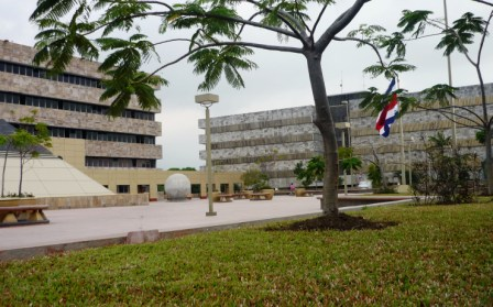 Justice Square — in San José city, Costa Rica.